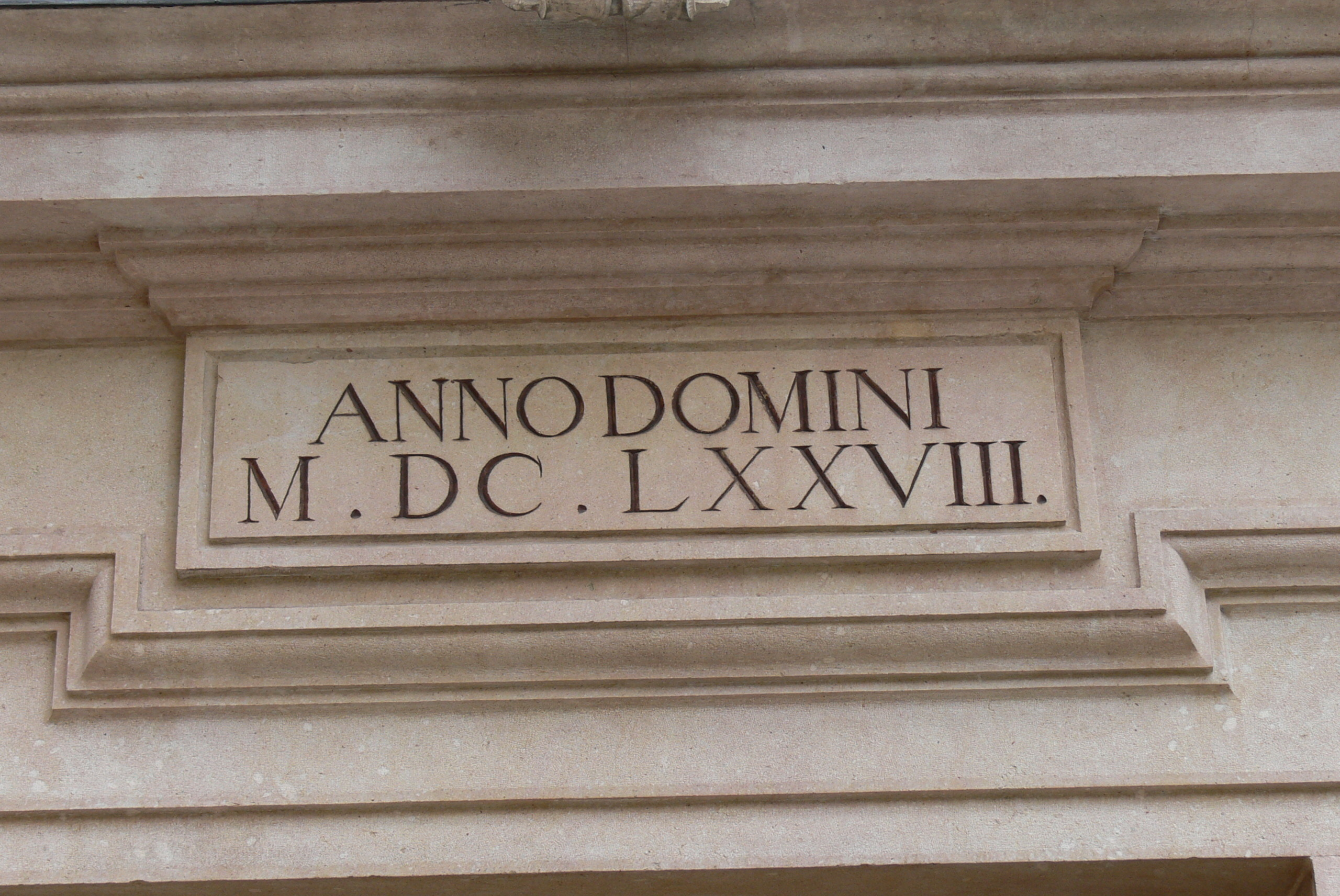 Lofer parish church - consecration date ( 1678 ) above the portal.